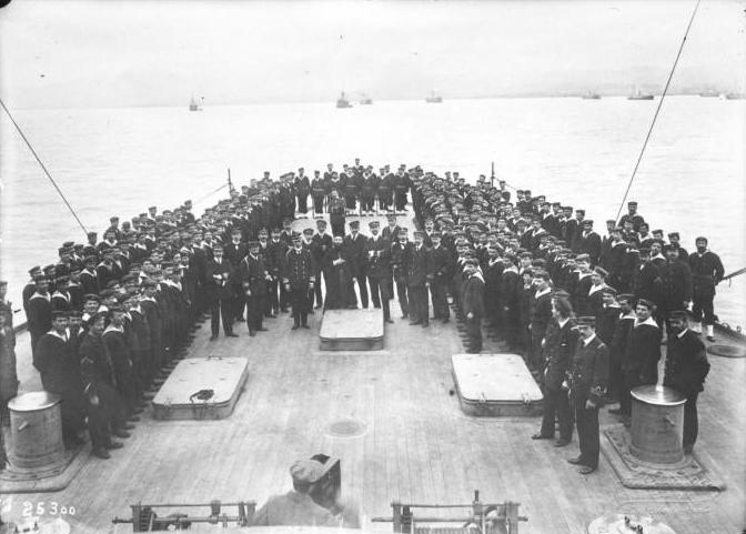 Admiral Pavlos Kountouriotis and the crew of his flagship, Averof, during the First Balkan War, 1912